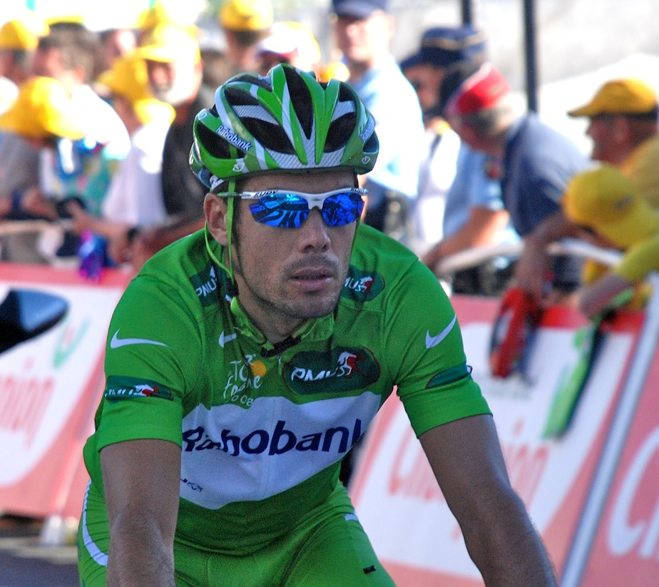 Oscar Freire during the 2008 Tour de France - at the Alpe d'Huez Finish.